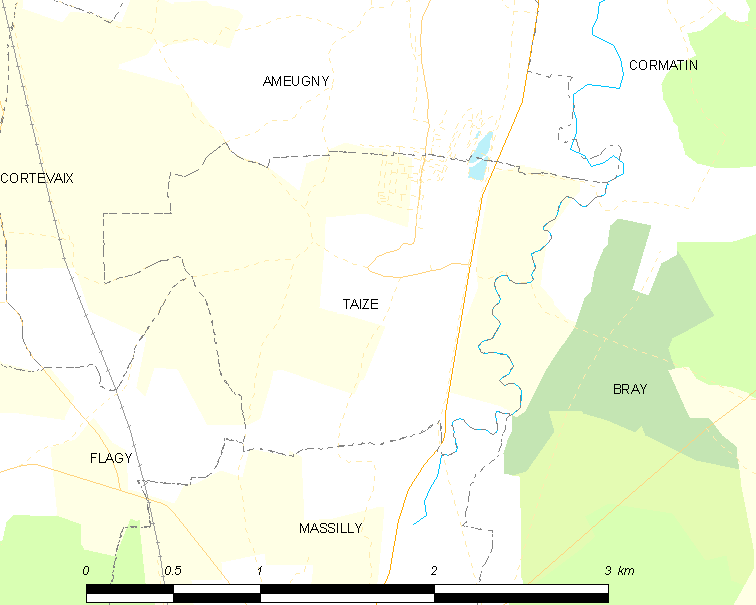 Map of French municipality